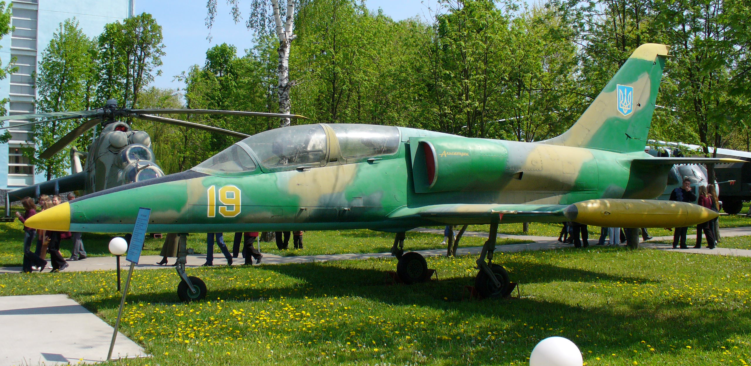 The Aero L-39 Albatros, a jet trainer aircraft developed in Czechoslovakia. Ukrainian Air Force Museum in Vinnitsa. Museum first repainting.